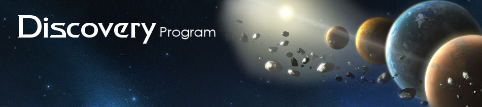 Header of the Discovery program's official website, from January 2016.